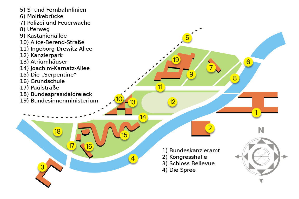 Berlin, Moabiter Werder. Plan of situation.